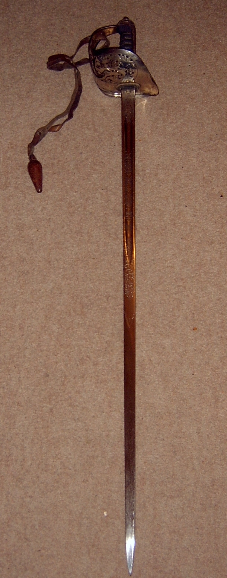 Picture 1 of an 1897 Pattern British Infantry Officers Sword from the collection of Epeeist Smudge.